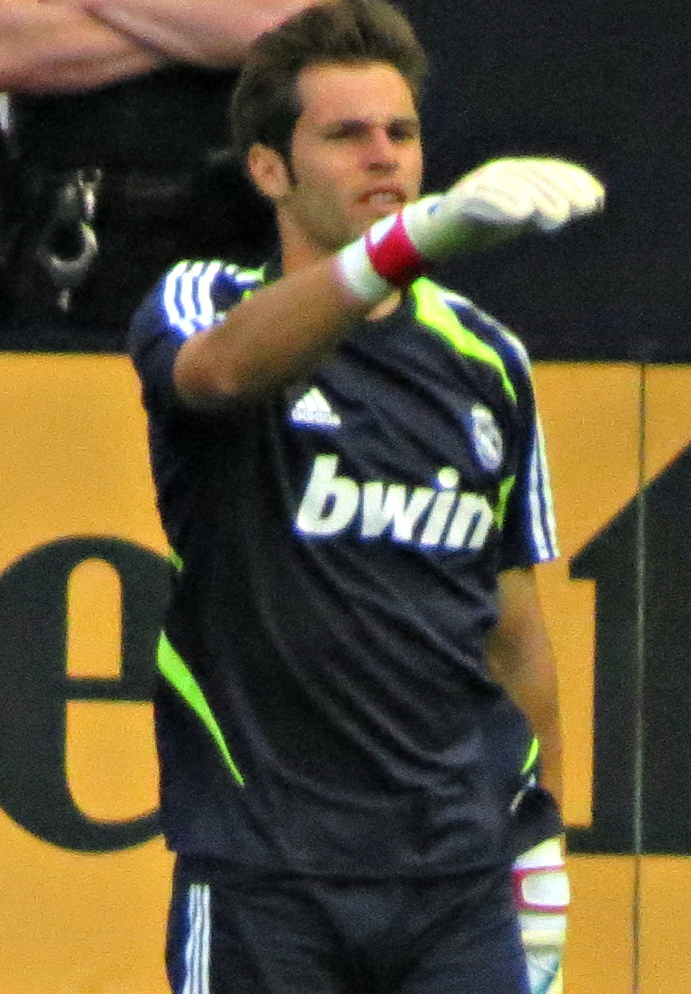 Iker Casillas (left) and Jesús (right) work with Real Madrid goalkeeping coach Silvino Louro.